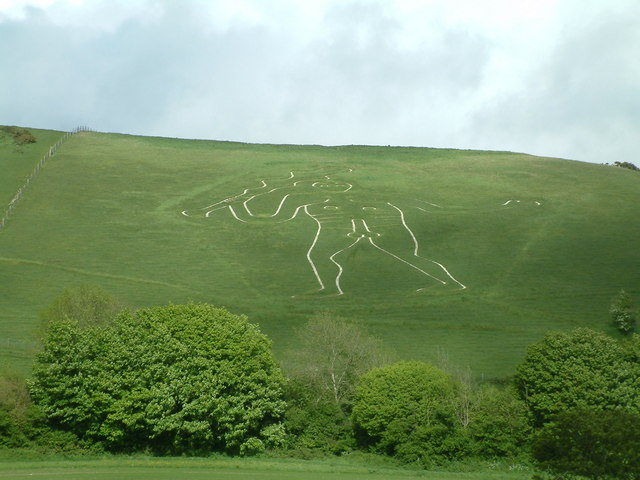 Cerne Abbas, The Cerne Giant. Unfortunately, a higher viewpoint is needed to do justice to the figure.